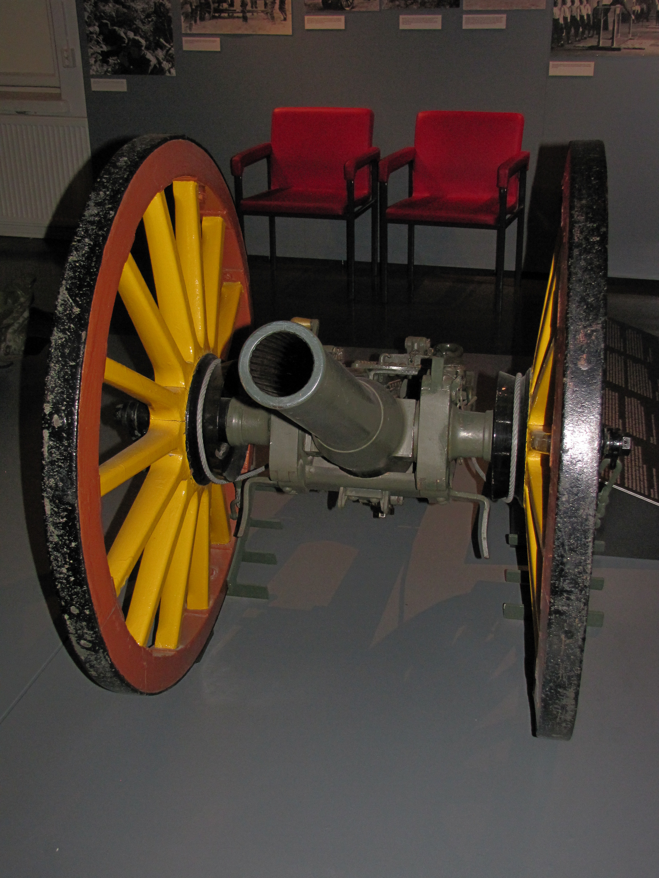 Japanese 75 mm Meiji 31 mountain gun in Hämeenlinna artillery museum. Sold to Russian Empire, captured by Finland during the Finnish Civil War. Finnish designation 75 VK 98.